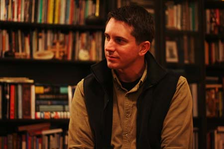 William Allegrezza